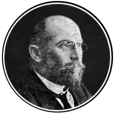 Karekin Khajag (1873 - 1915) was an Armenian journalist, writer, political activist, and educator. In 1915, Karekin Khajag was killed during the Armenian Genocide.